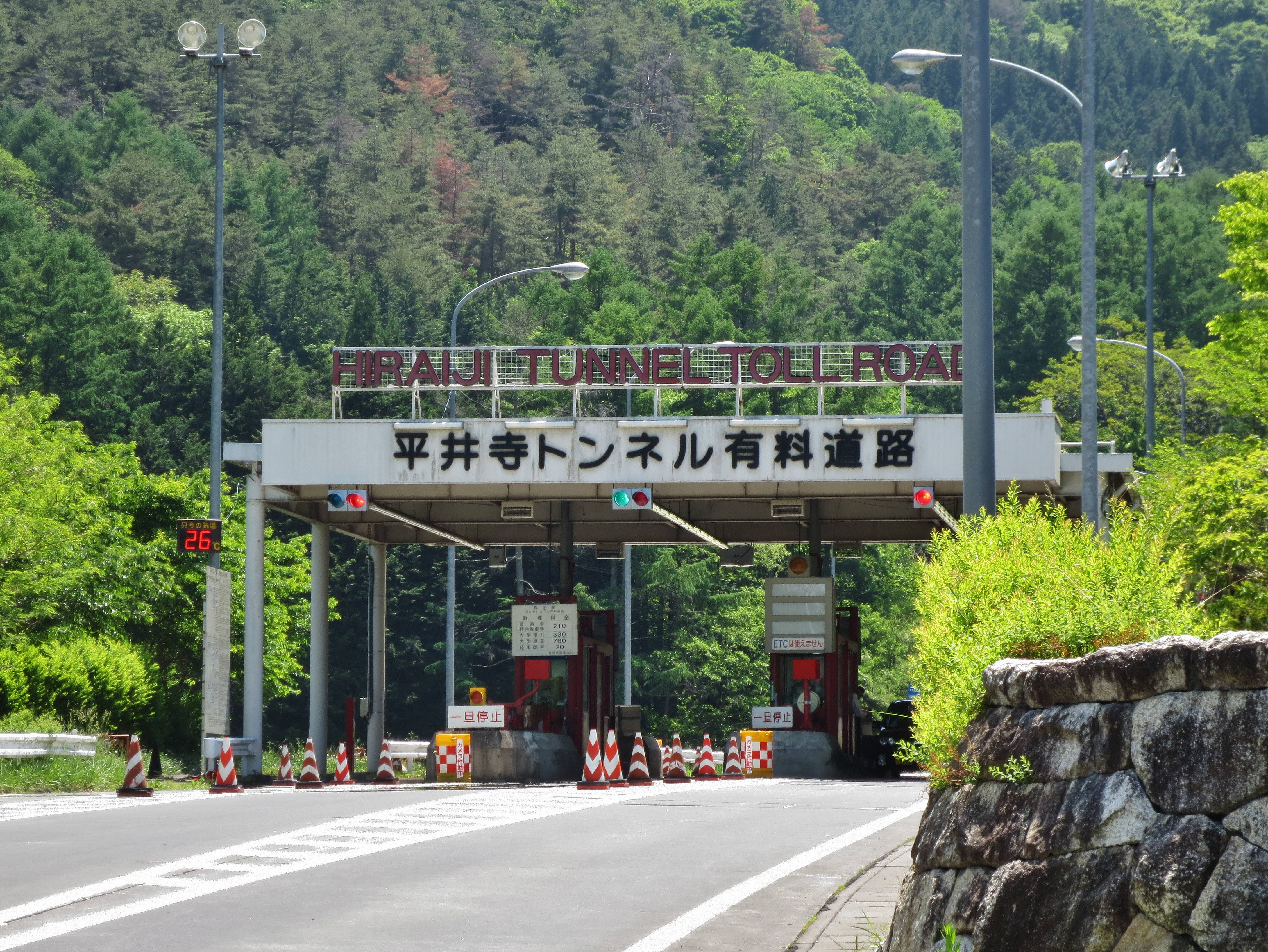 Hiraiji Tunnel Toll Road toll plaza.